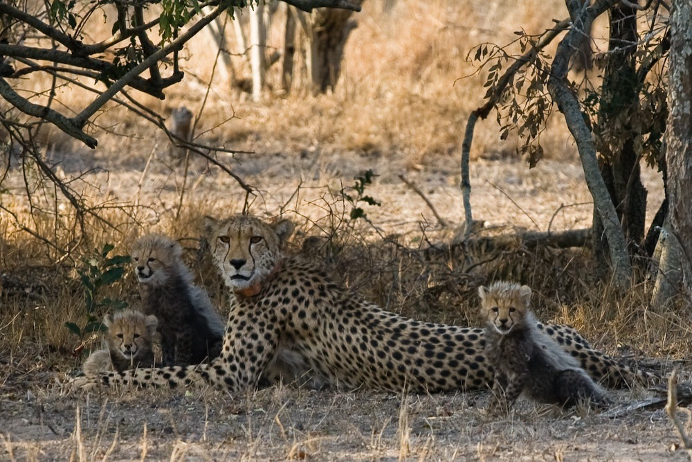 Safari in South Africa: Cheetah and cubs